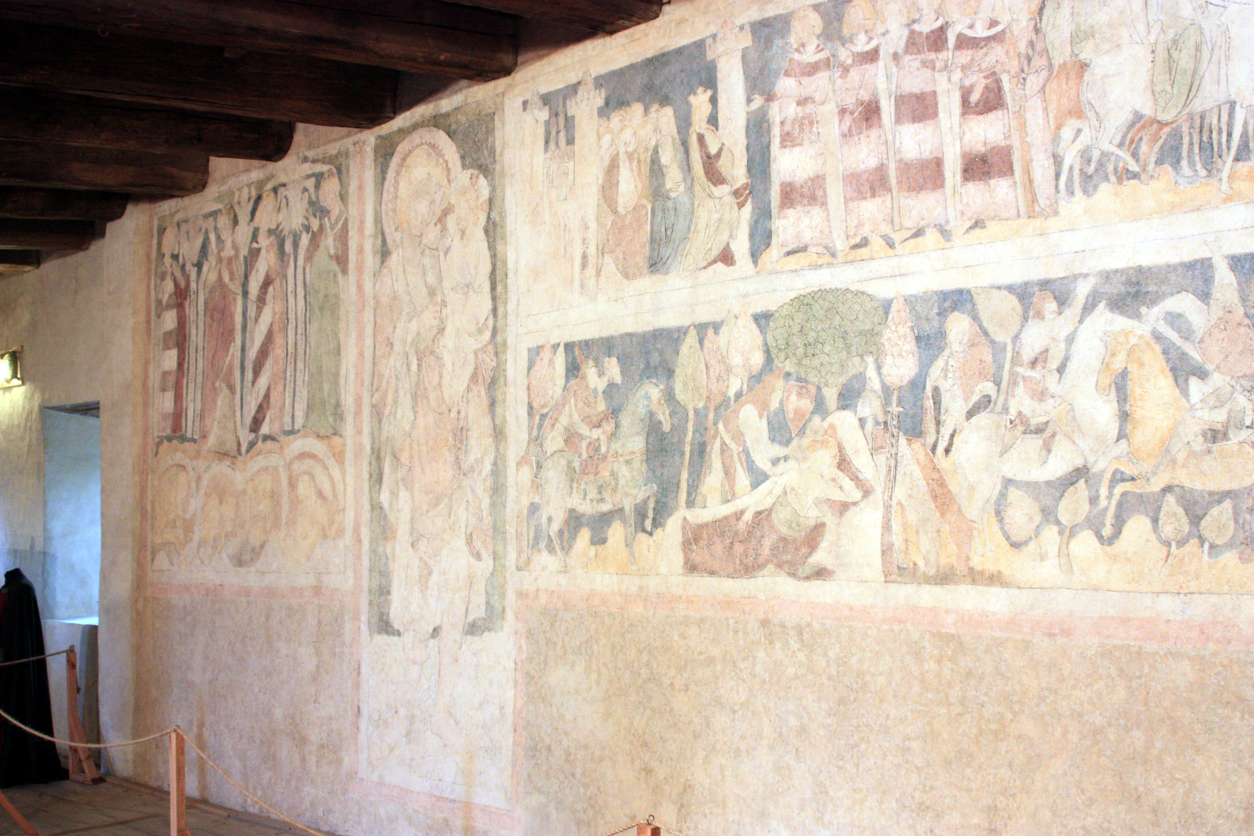 Wall painting from the 14th century inside the tower prince in Siedlęcin. The story of Sir Lancelot - the only surviving in the world.